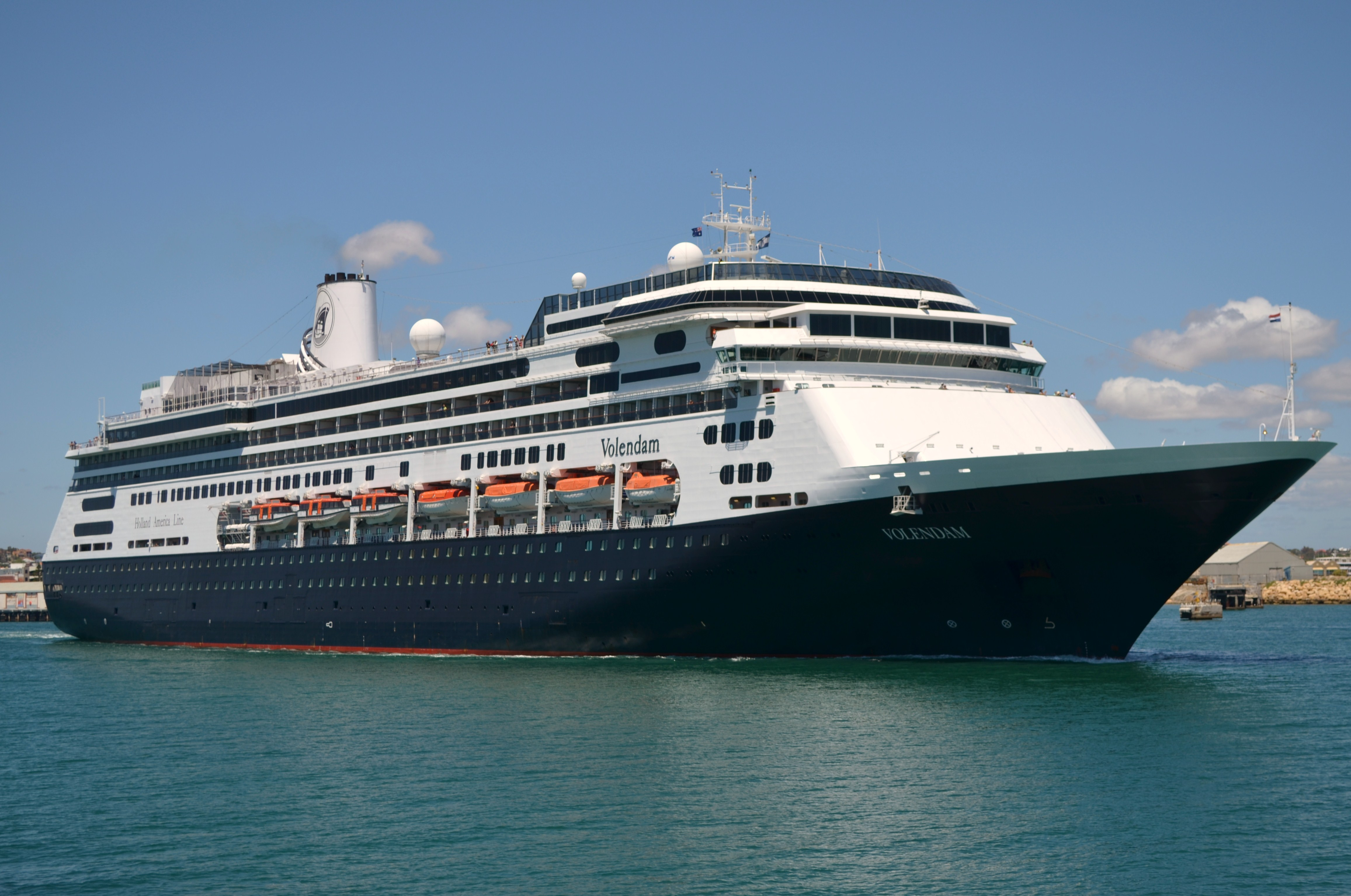 MS Volendam departing from Fremantle Harbour, Western Australia.